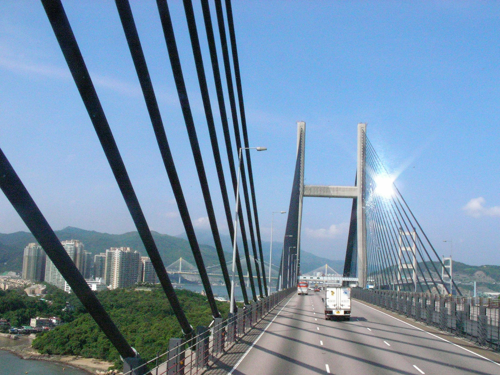 Bridge from Lantau to Hong Kong on Lantau Island